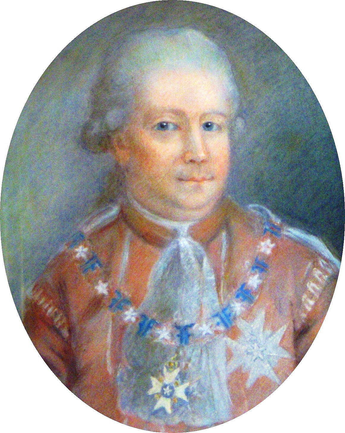 Portrait of Johan Liljencrantz